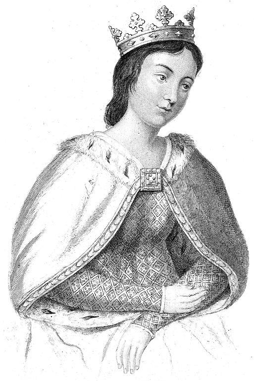 Eleanor of Provence, queen of England